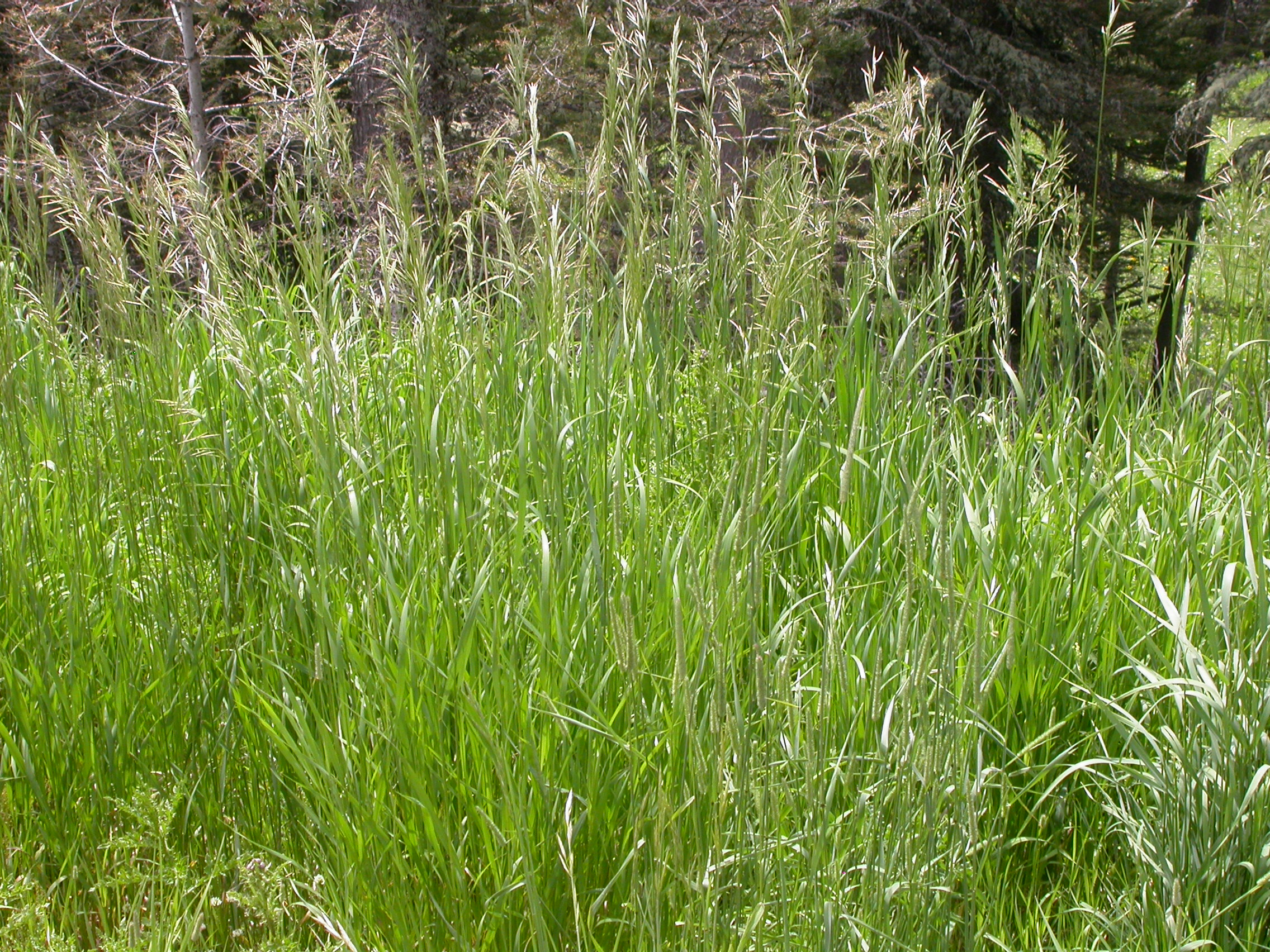 a perennial bunchgrass with spikelets that are not strongly laterally compressed and lemmas that usually don't bear long awns